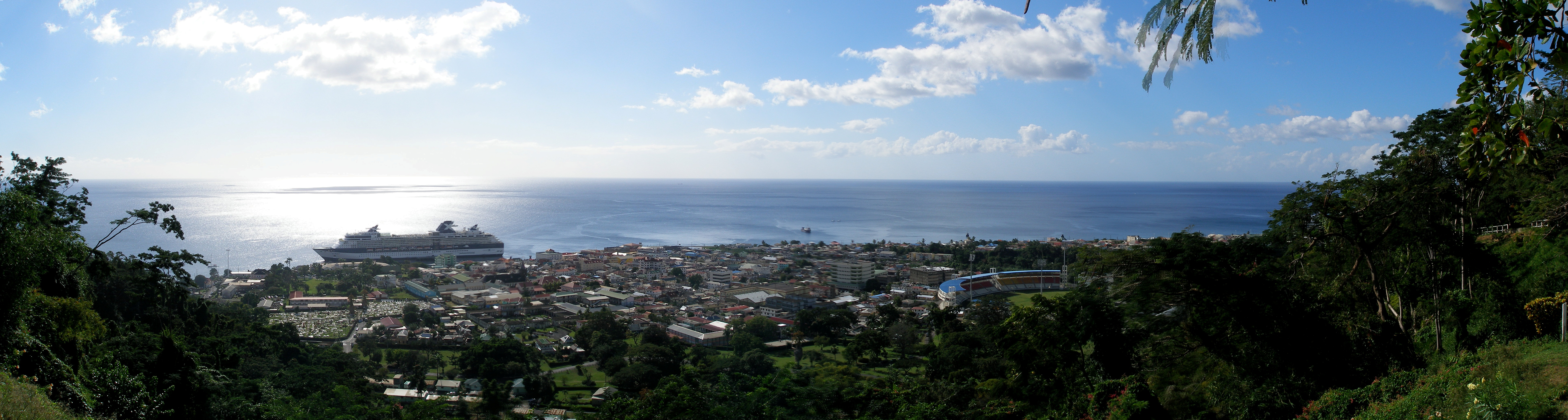 A Panoramic view of Roseau, Dominica.